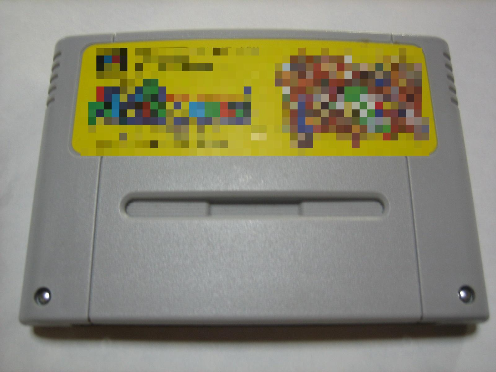 Super Famicom cartridge with the label of "Super Mario World" (Pixelated).